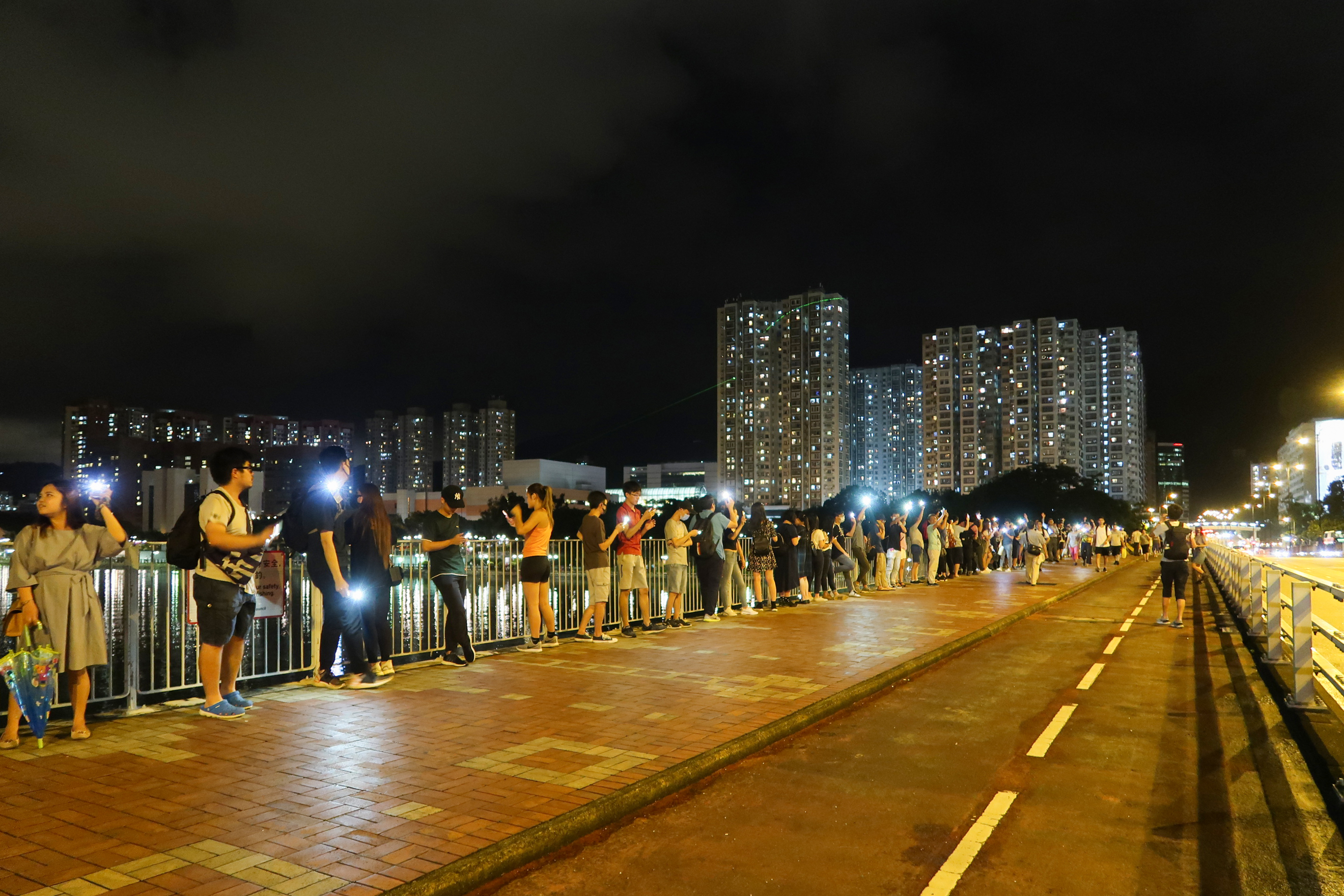 Sand Martin Bridge people